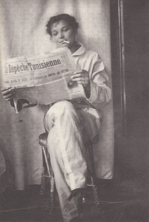 Jaroslava Vondráčková (1894-1986) - czech textile designer and writer